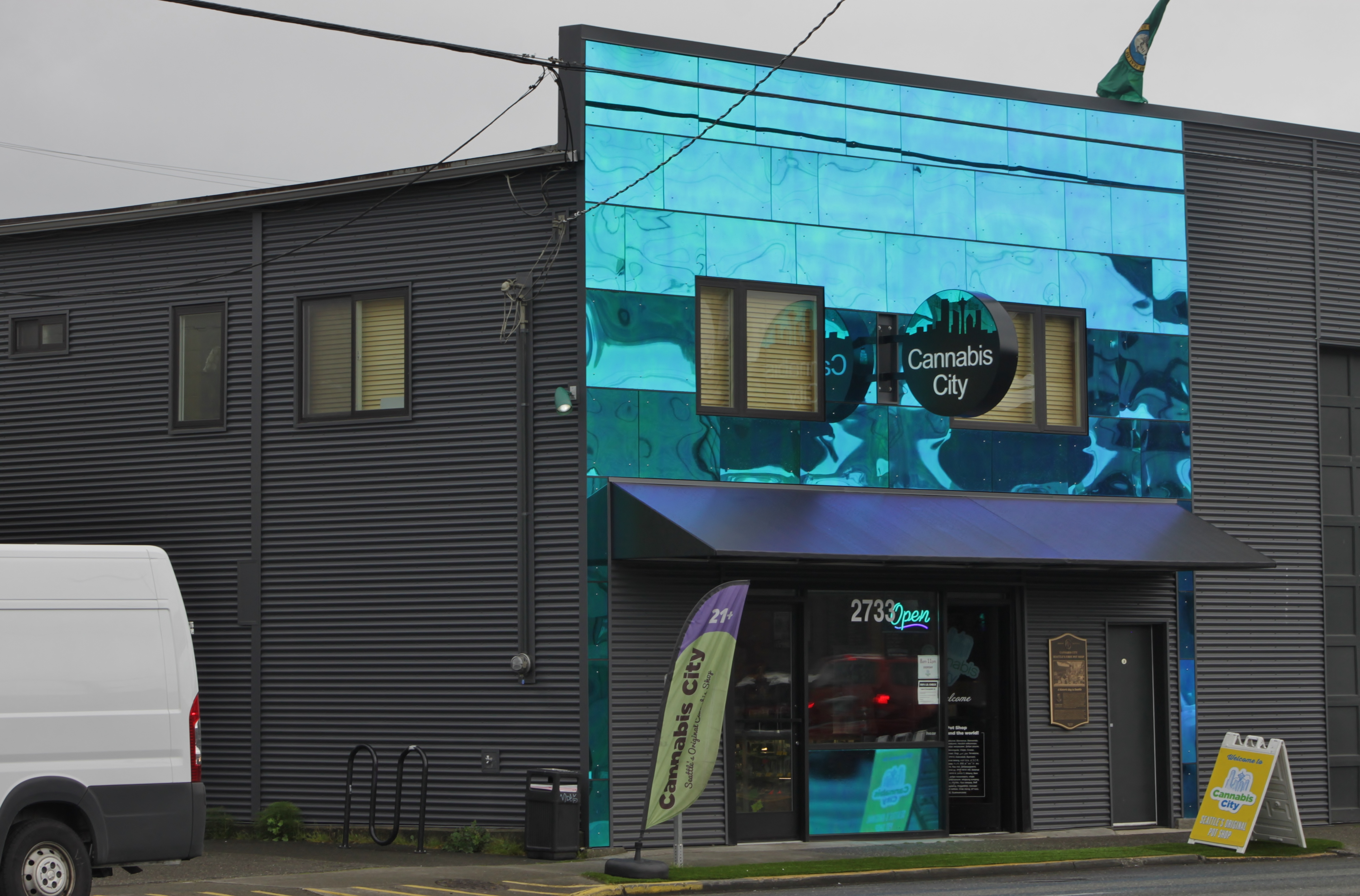 Cannabis City, a recreational marijuana dispensary in Seattle, Washington.